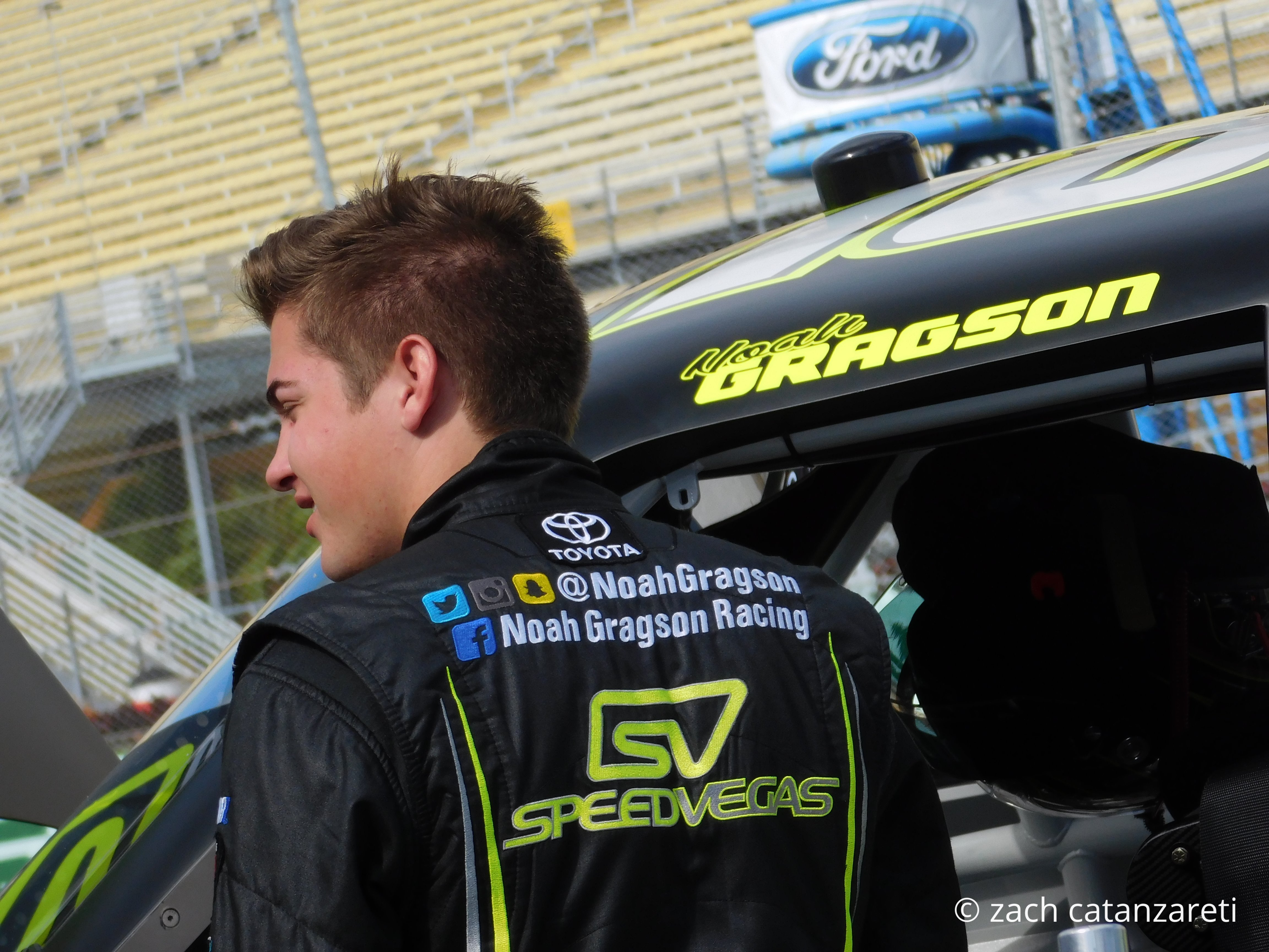 Noah Gragson prior to the 2016 Ford EcoBoost 200